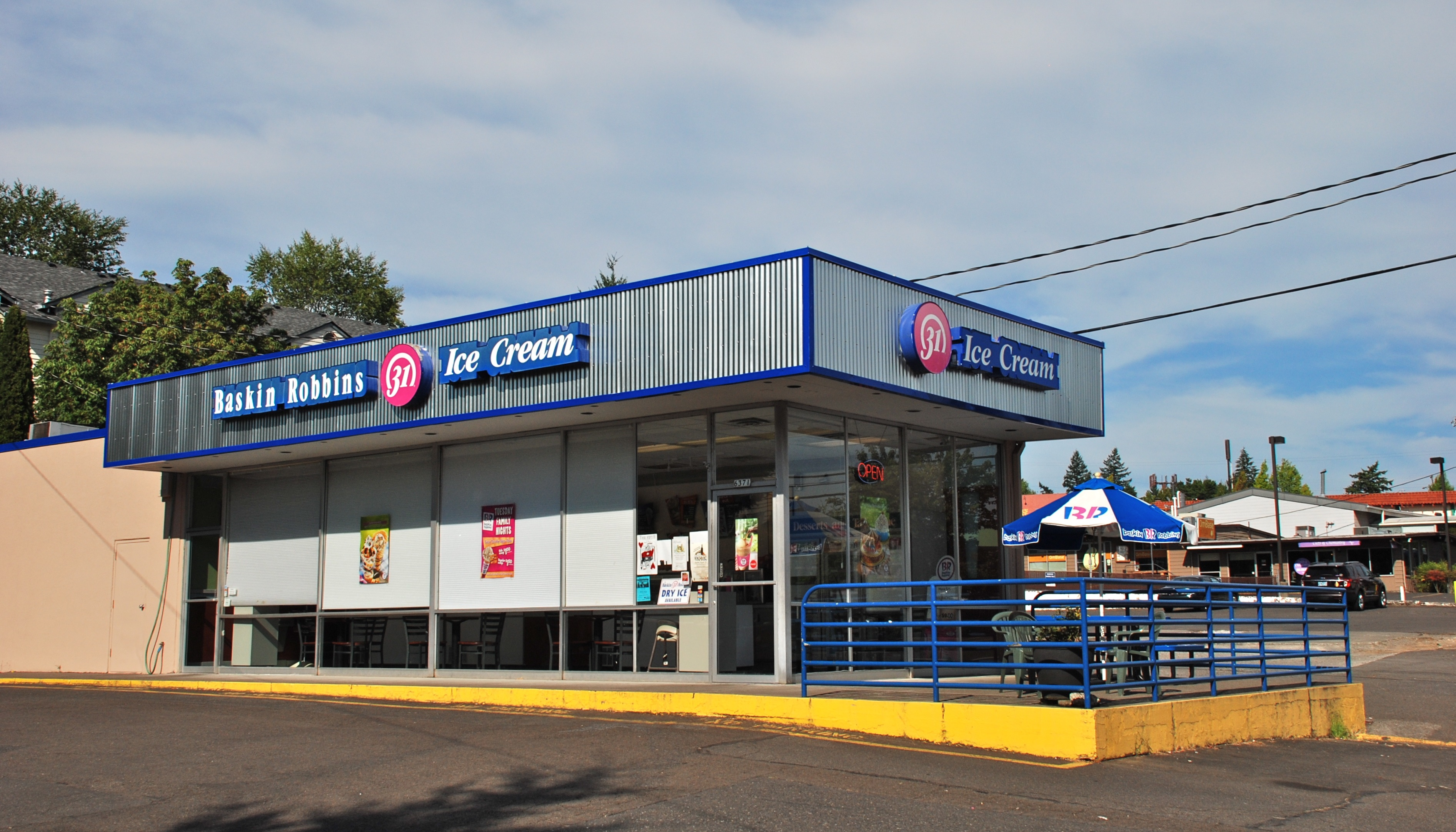 The Baskin-Robbins 31 ice cream store at 6371 SW Capitol Highway, in the Hillsdale neighborhood of Portland, Oregon. It opened in April 1967 and was one of the first three Baskin-Robbins stores in the Portland area, all of which were opened at that time. This store closed in mid-2014, after the property it occupied and adjoining properties were sold for redevelopment. (Historical details found in 1967 articles in The Oregonian newspaper, via the Multnomah County Library and NewsBank.)